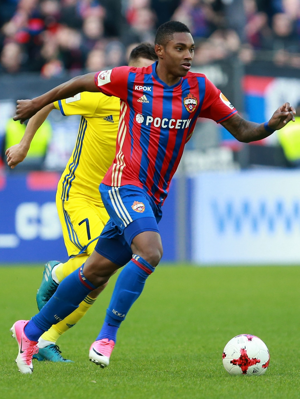 Vitinho playing for PFC CSKA Moscow in a game against FC Rostov.